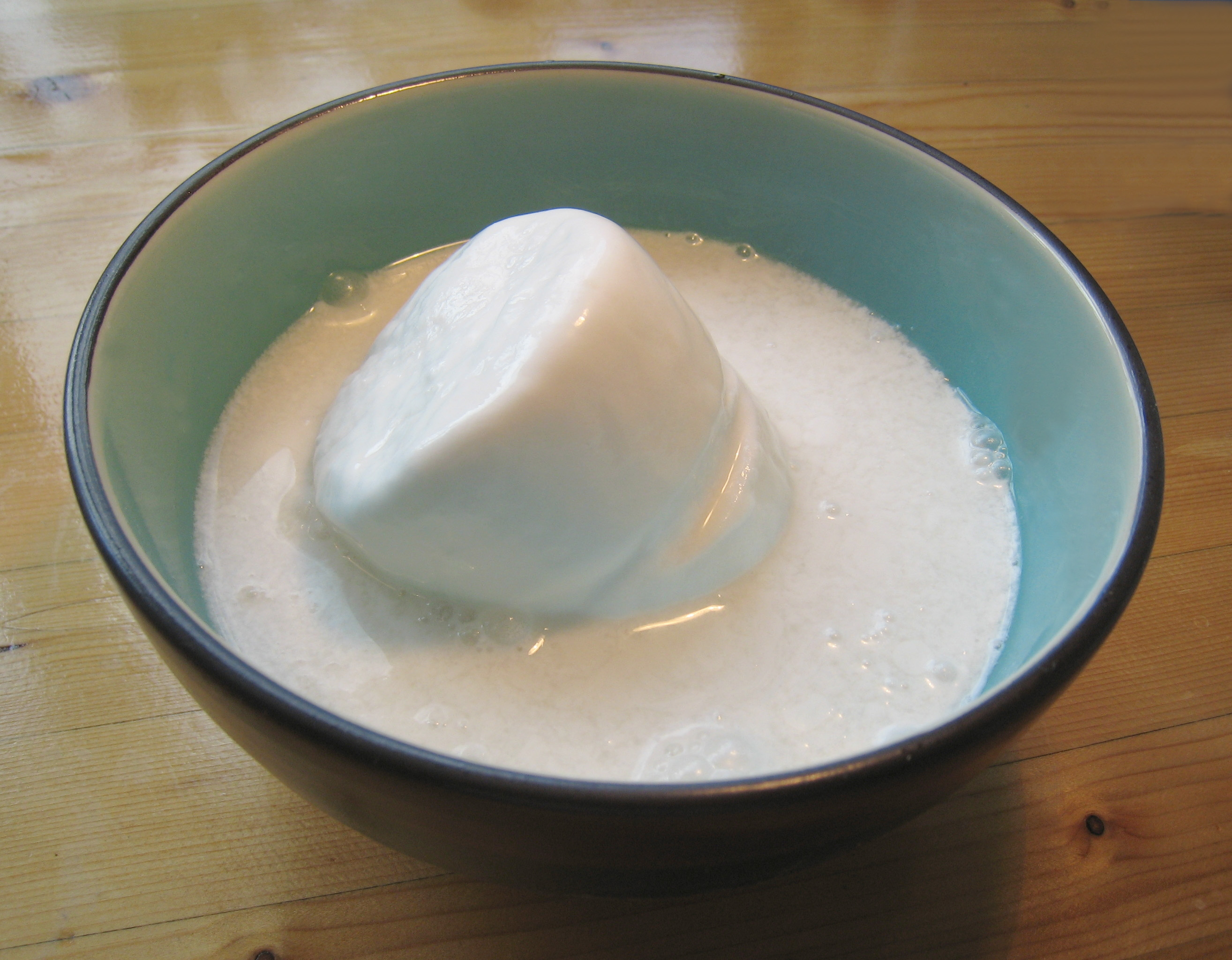 Canned coconut milk can be solid on opening the can. Heating will make it liquid again.